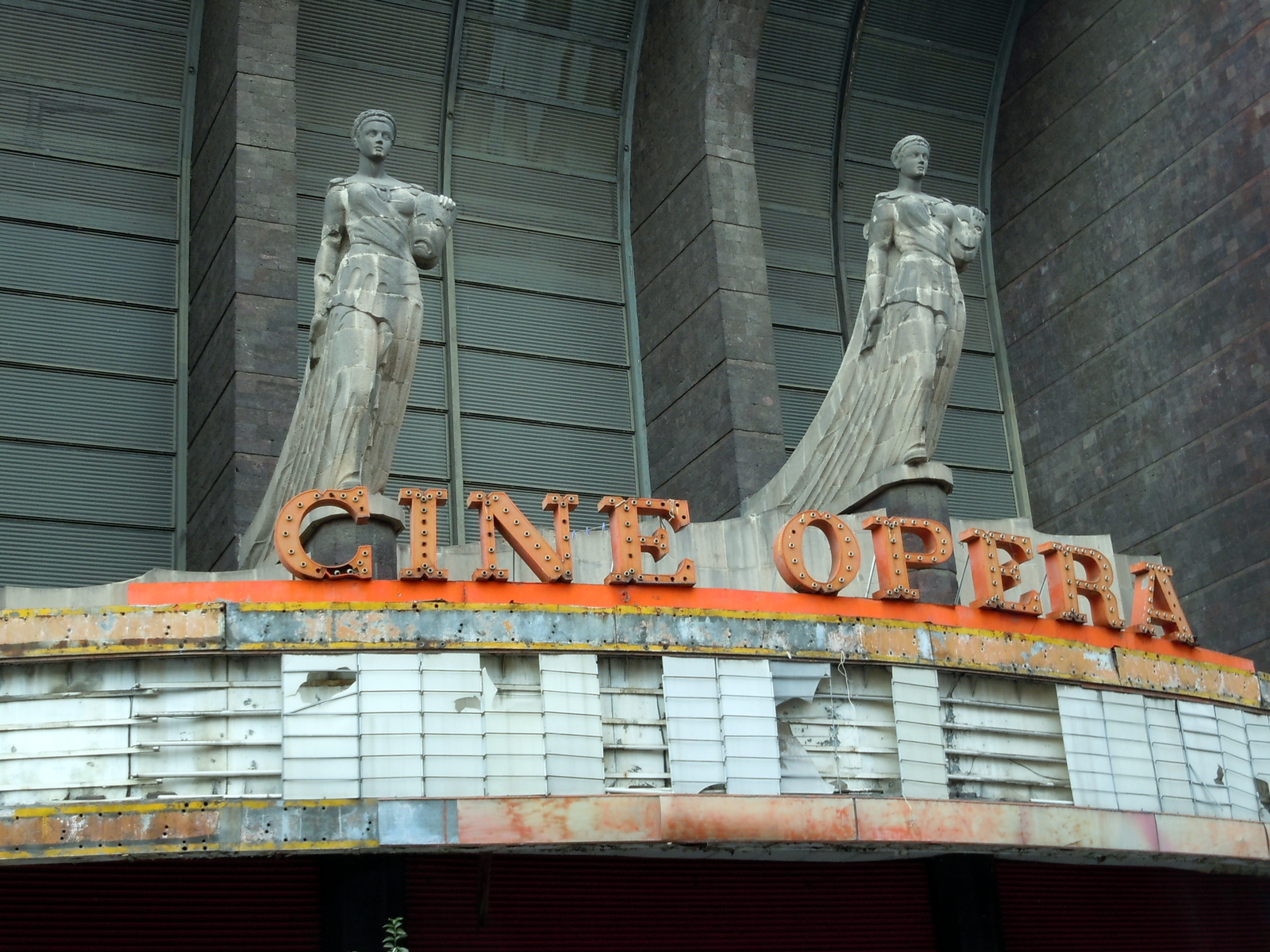 San Rafael, Mexico City